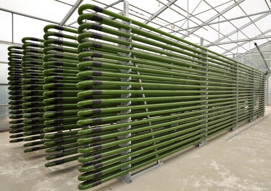 This image shows a tubular glass photobioreactor for the cultivation of microalgae and other photosynthetic organisms. It has an operational volume of 4000 liters and the principle was developed in the late 1990ies. This type of photobioreactor is suitable for the scaled production of microalgae-based high-value products.